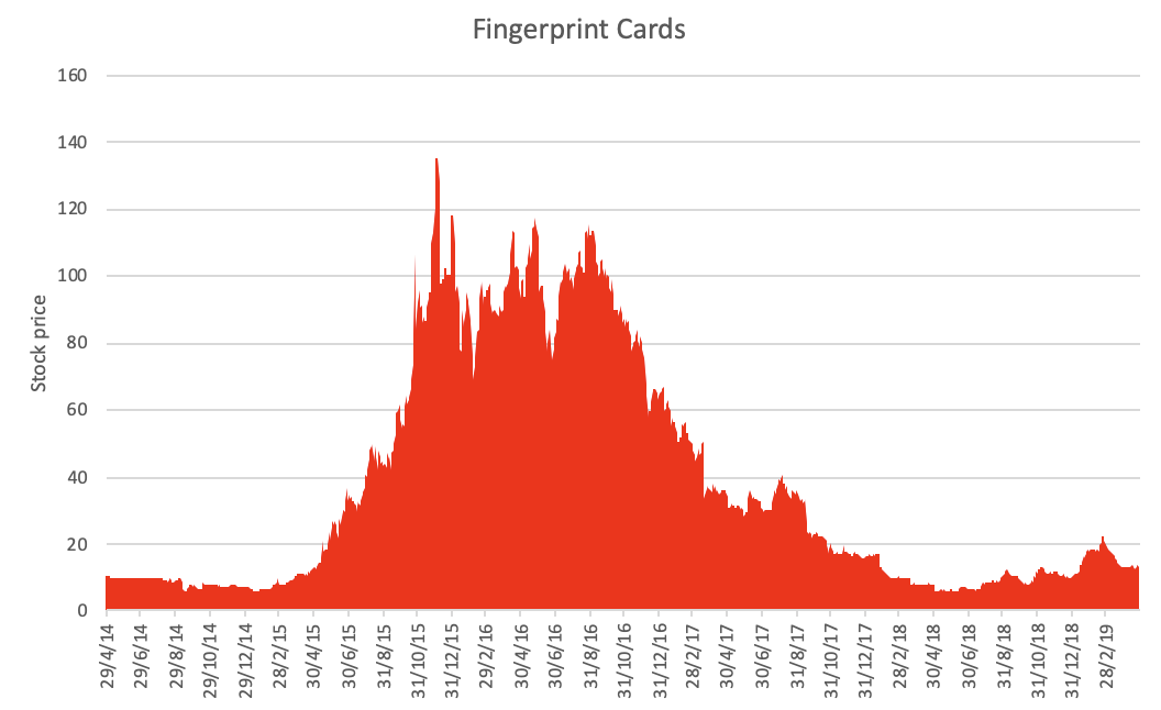 Daily closing prices for Fingerprint Cards the past 5 years